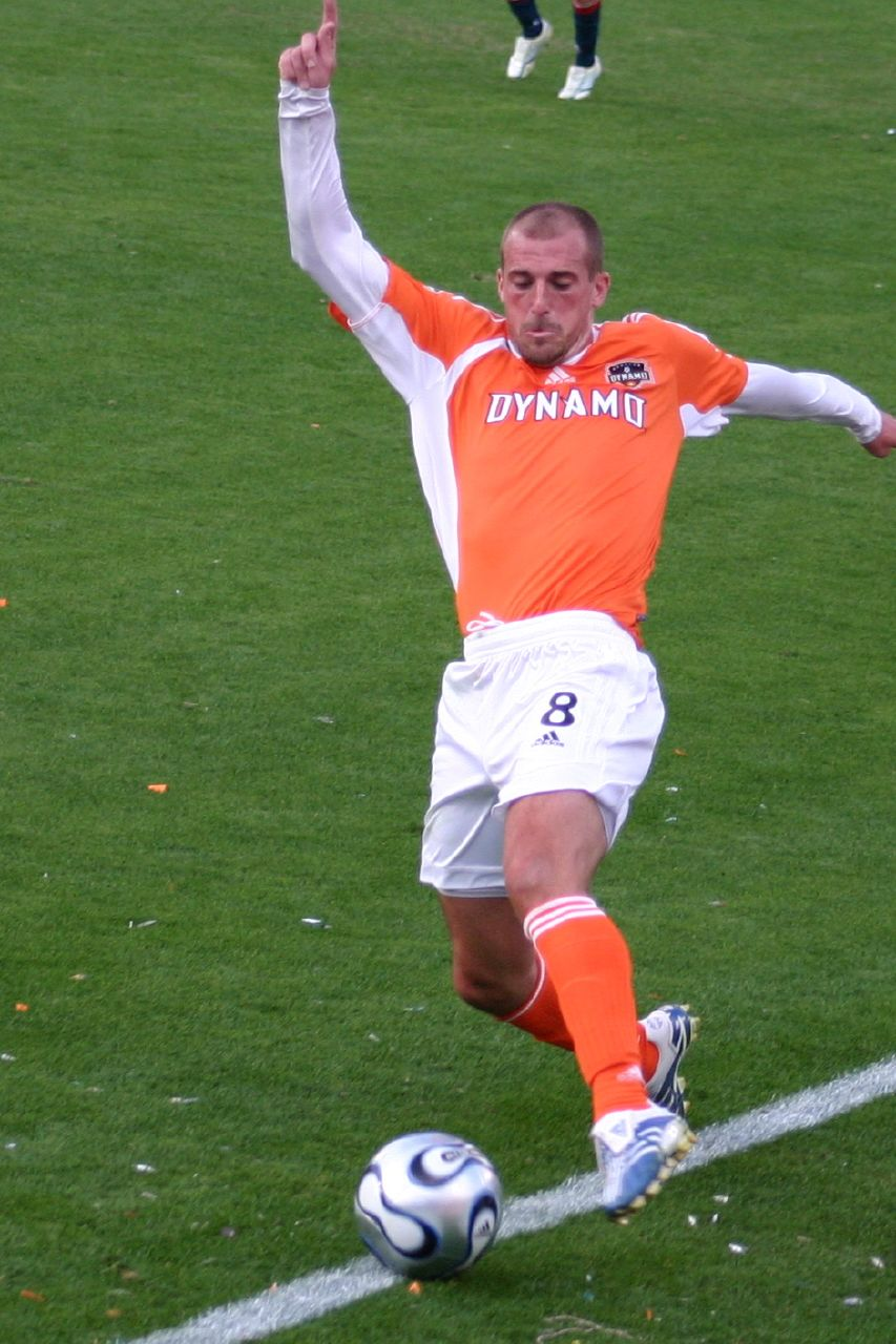 Paul Daglish at the 2006 MLS Cup.